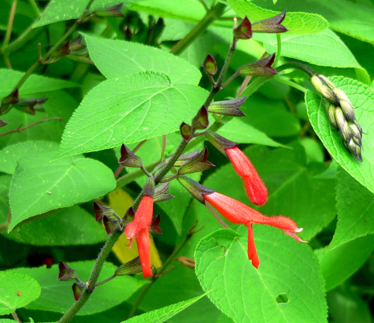 Photo of Salvia gesneriiflora at the San Francisco Botanical Garden